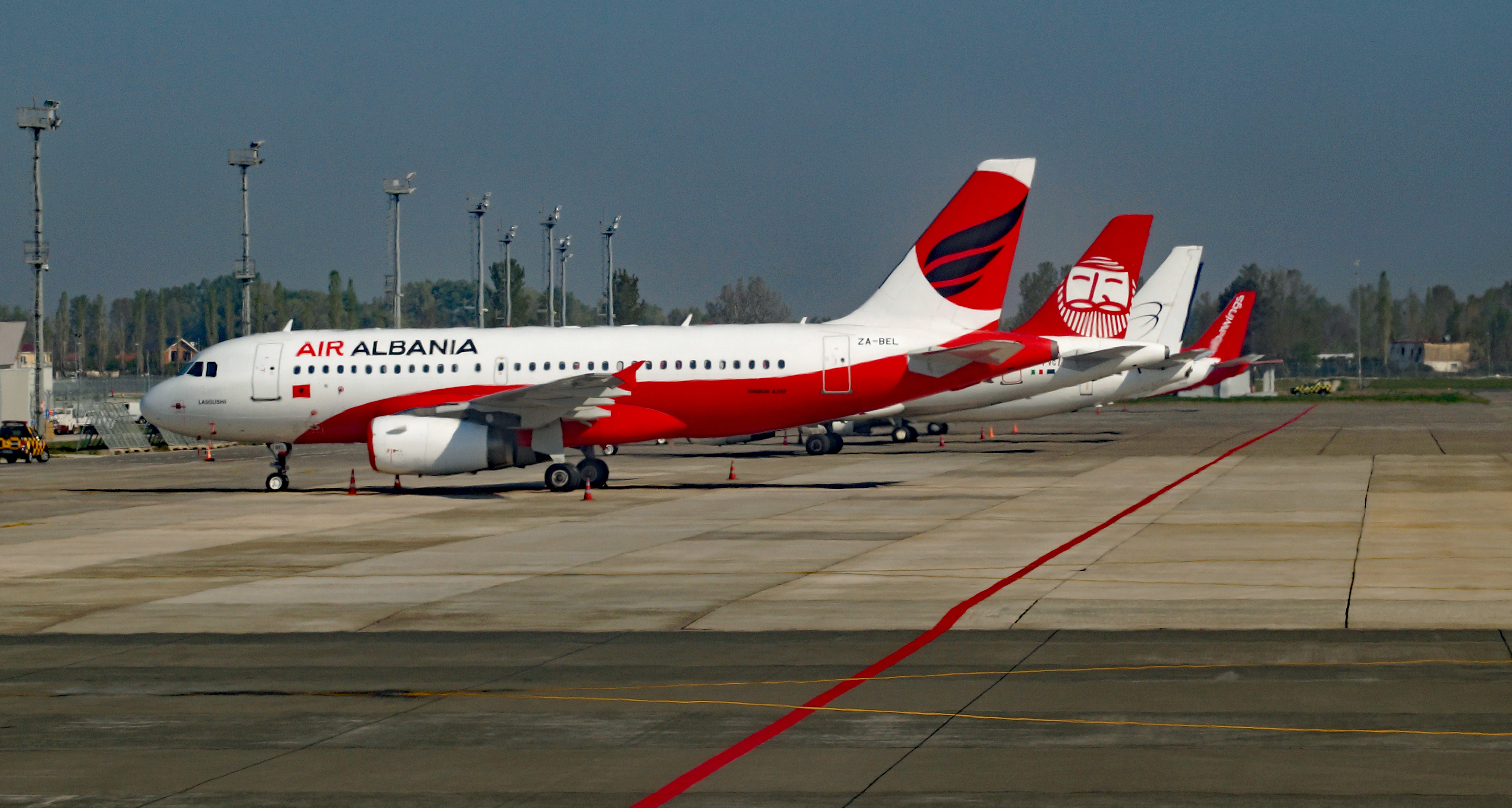 Air Albania aircraft at Tirana International Airport